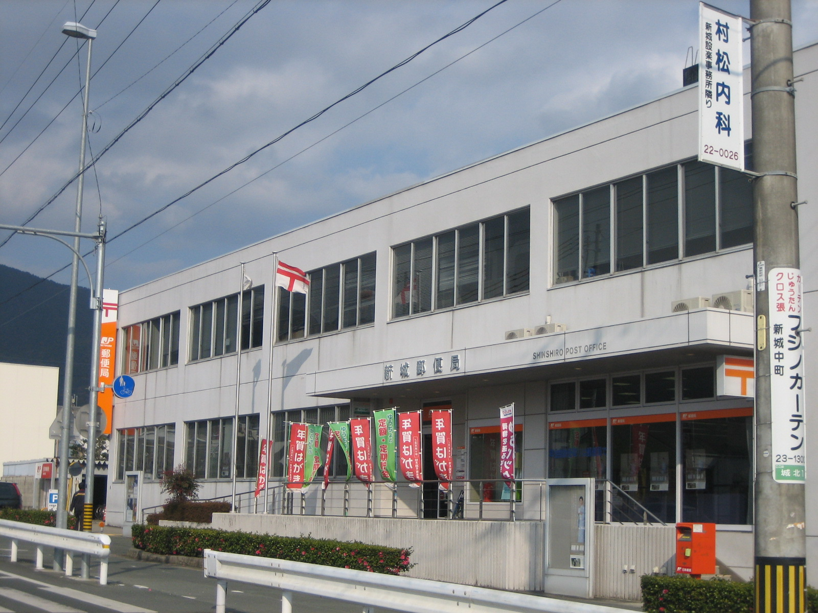 Shinshiro post office in Aichi, Japan